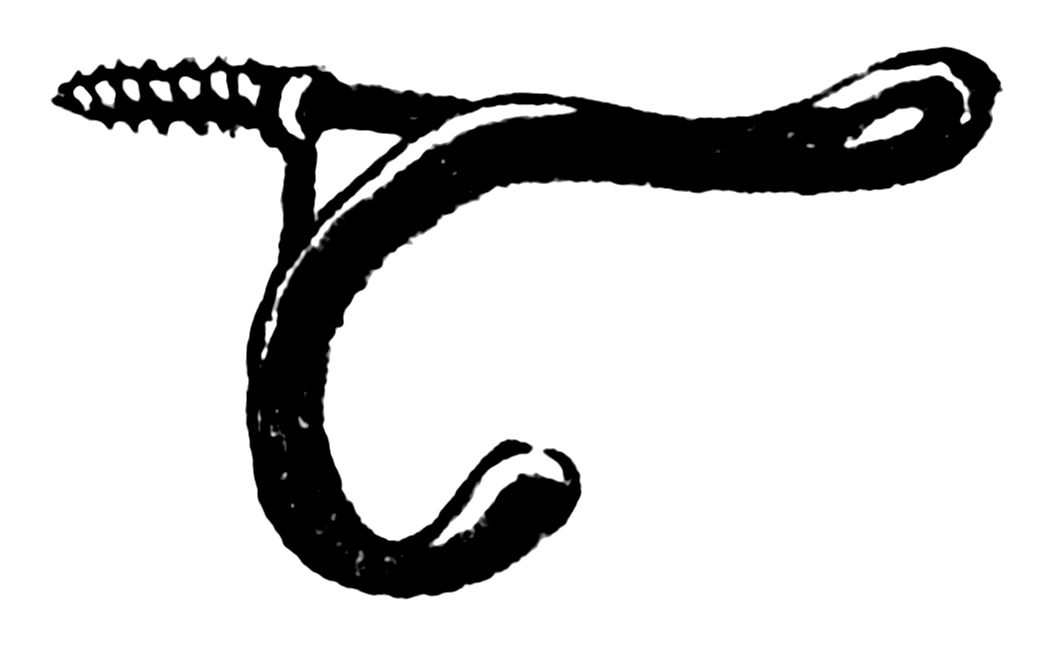 An illustration of a hook.